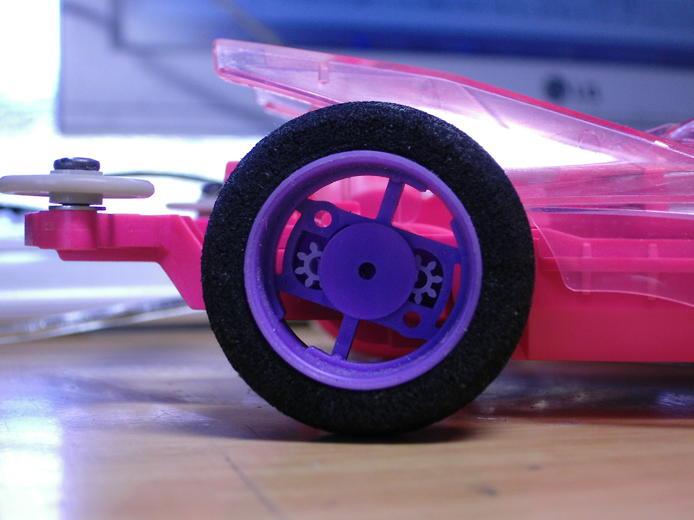 ミニ四駆・大径ワンウェイホイール Tamiya's Mini-4WD Large Dia. one-way wheel